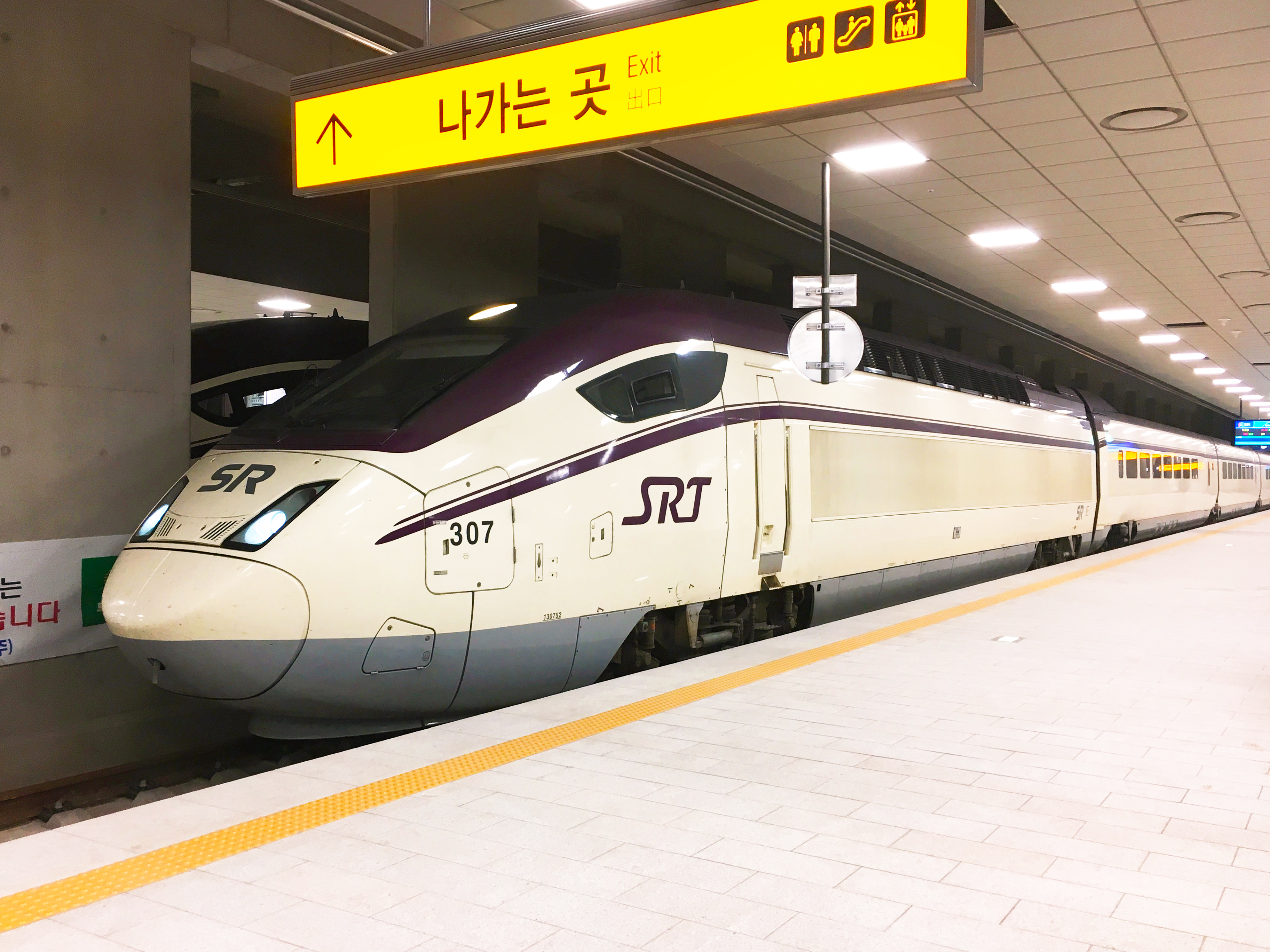 Picture is srt train 130000 Series in Suseo station